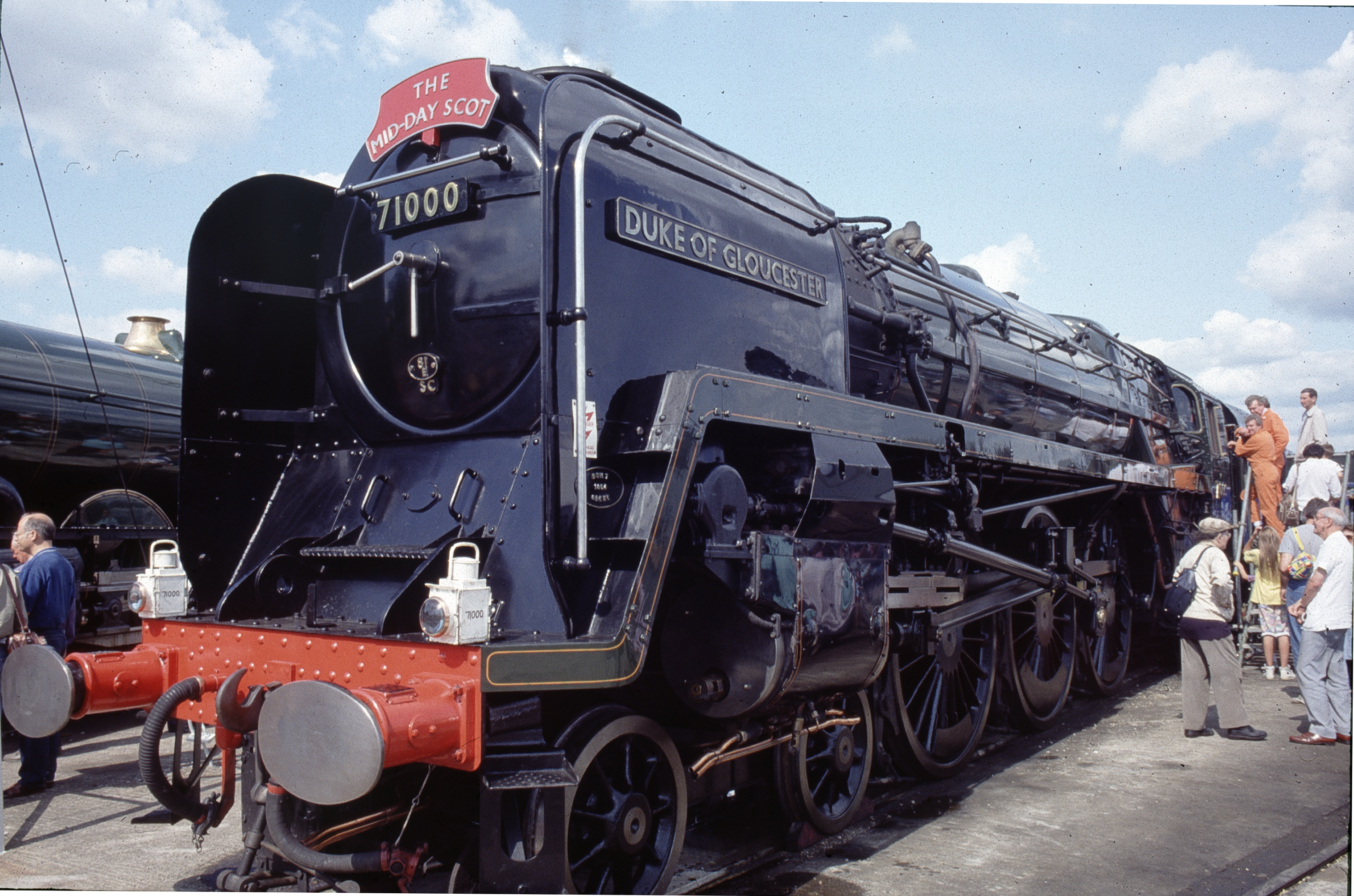 At Wimbledon